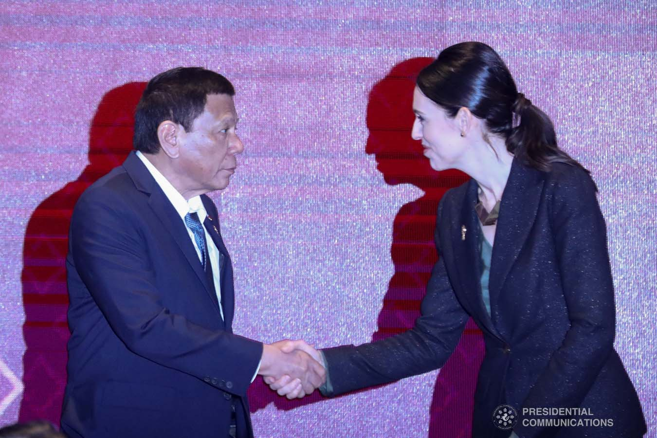 President Rodrigo Roa Duterte greets Prime Minister of New Zealand Jacinda Ardern prior to the start of the 14th East Asia Summit at the Impact Exhibition and Convention Center in Nonthaburi, Thailand on November 4, 2019. TOTO LOZANO/PRESIDENTIAL PHOTO